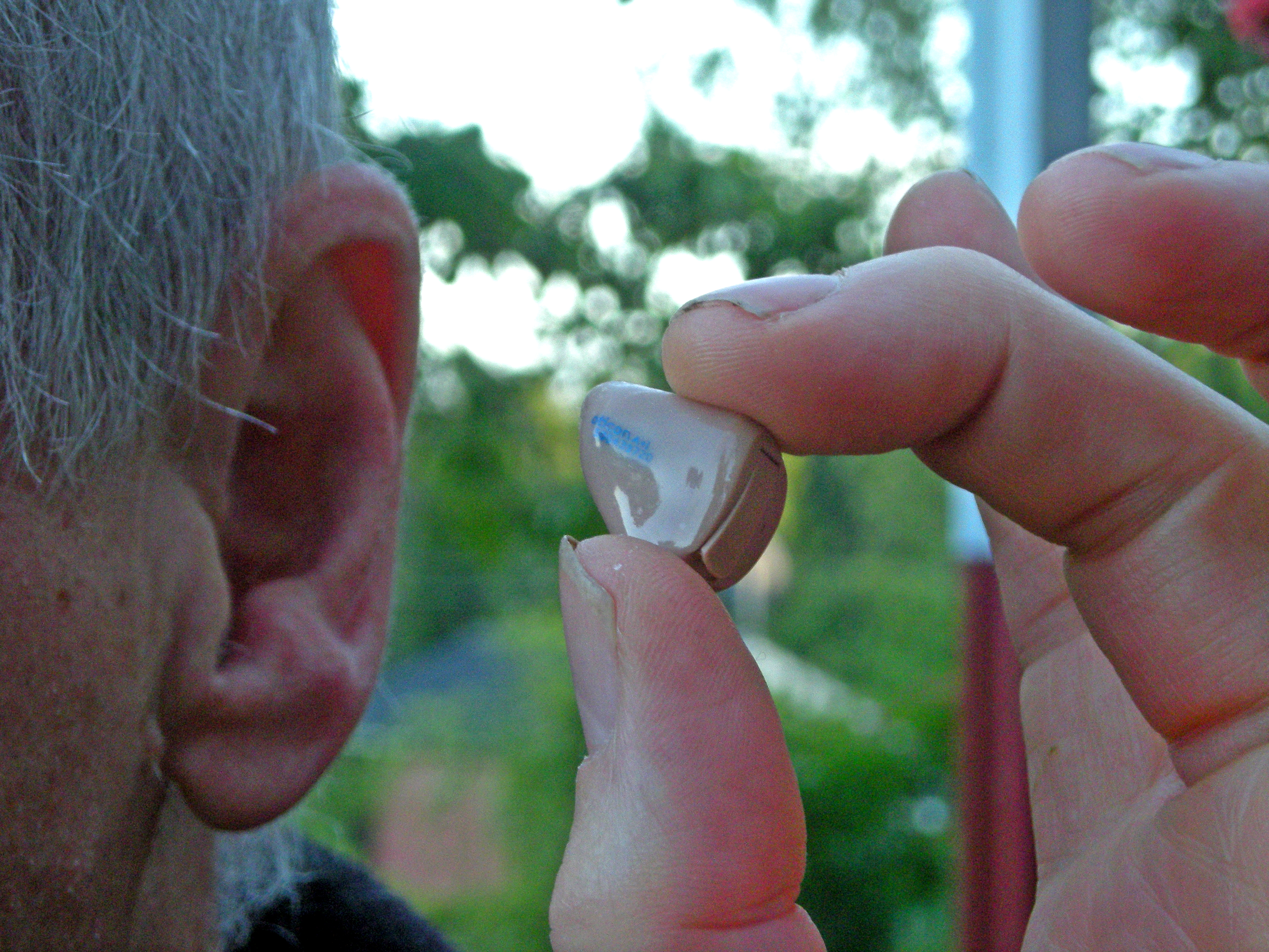 Hearing aid, photo taken in Sweden